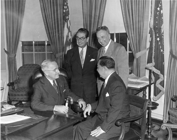 President Harry S. Truman (seated, left) meets with President Elpidio Quirino of the Philippines (seated, right). Standing are the Filipino Ambassador to the United States, Joaquin Elizalde (left) and the United States Ambassador to the Philippines, Myron Cowen